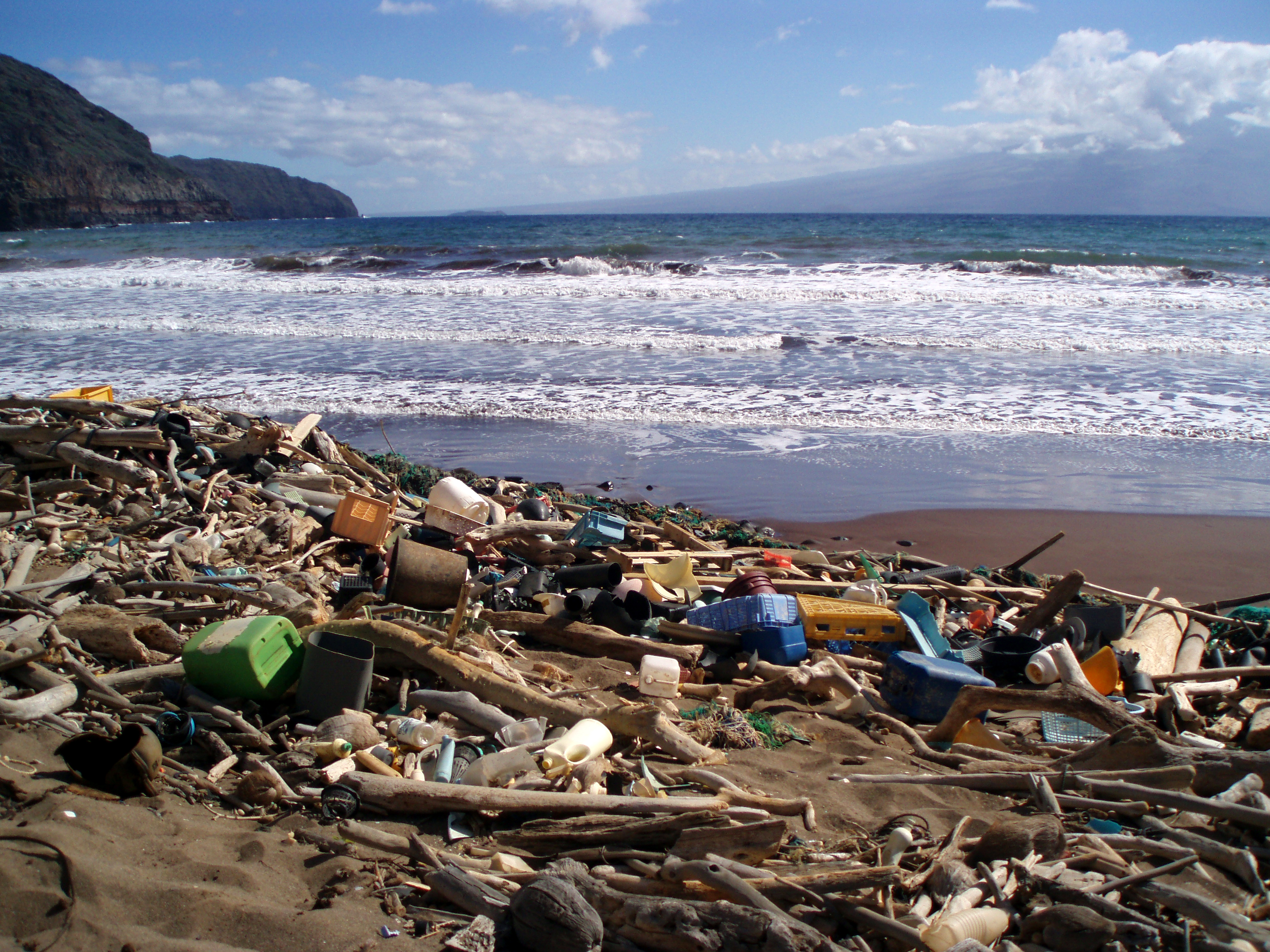 The beach at Kanapou Bay collects debris from throughout the Pacific Ocean. The Hawaii Department of Land and Natural Resources will continue organizing cleanups to remove debris from beaches in Kaho'olawe supported by NOAA funding. Image ID: fis00840, NOAA's Fisheries Collection Photo Date: 2006 September 9 Credit: NOAA News 2013 September 4